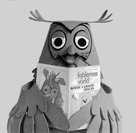 Mr Owl, from the Swedish version of the Dutch television series Fabeltjeskrant (The Fables Newspaper). The series was called Fablernas värld (World of Fables) in Swedish.